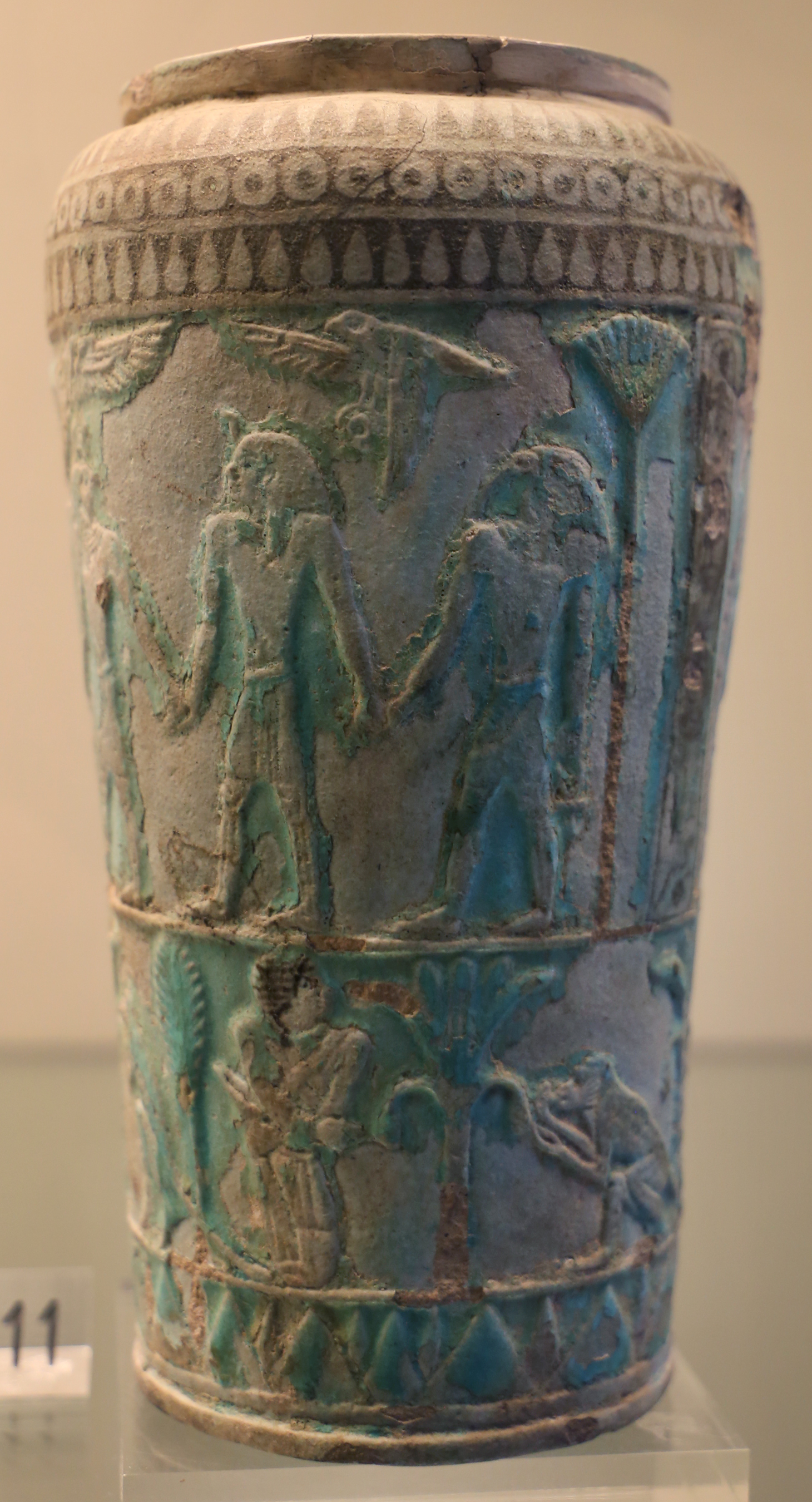 Collections of the Museo archeologico nazionale (Tarquinia)